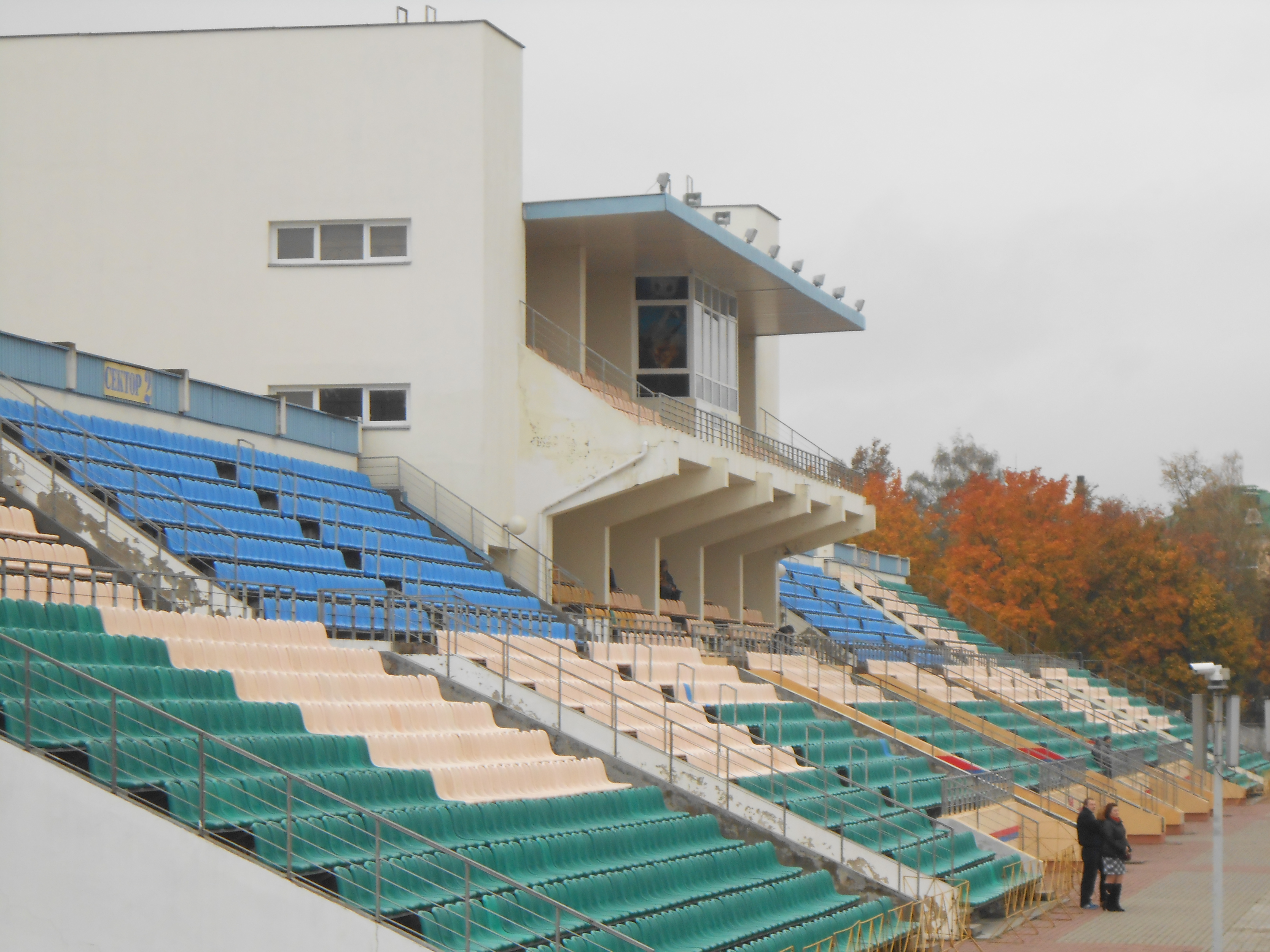 Стадыен "Лакаматыў" . Баранавічы. 8